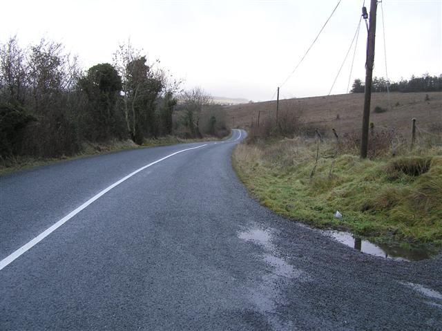 R206 at Derrytahon Heading north-east